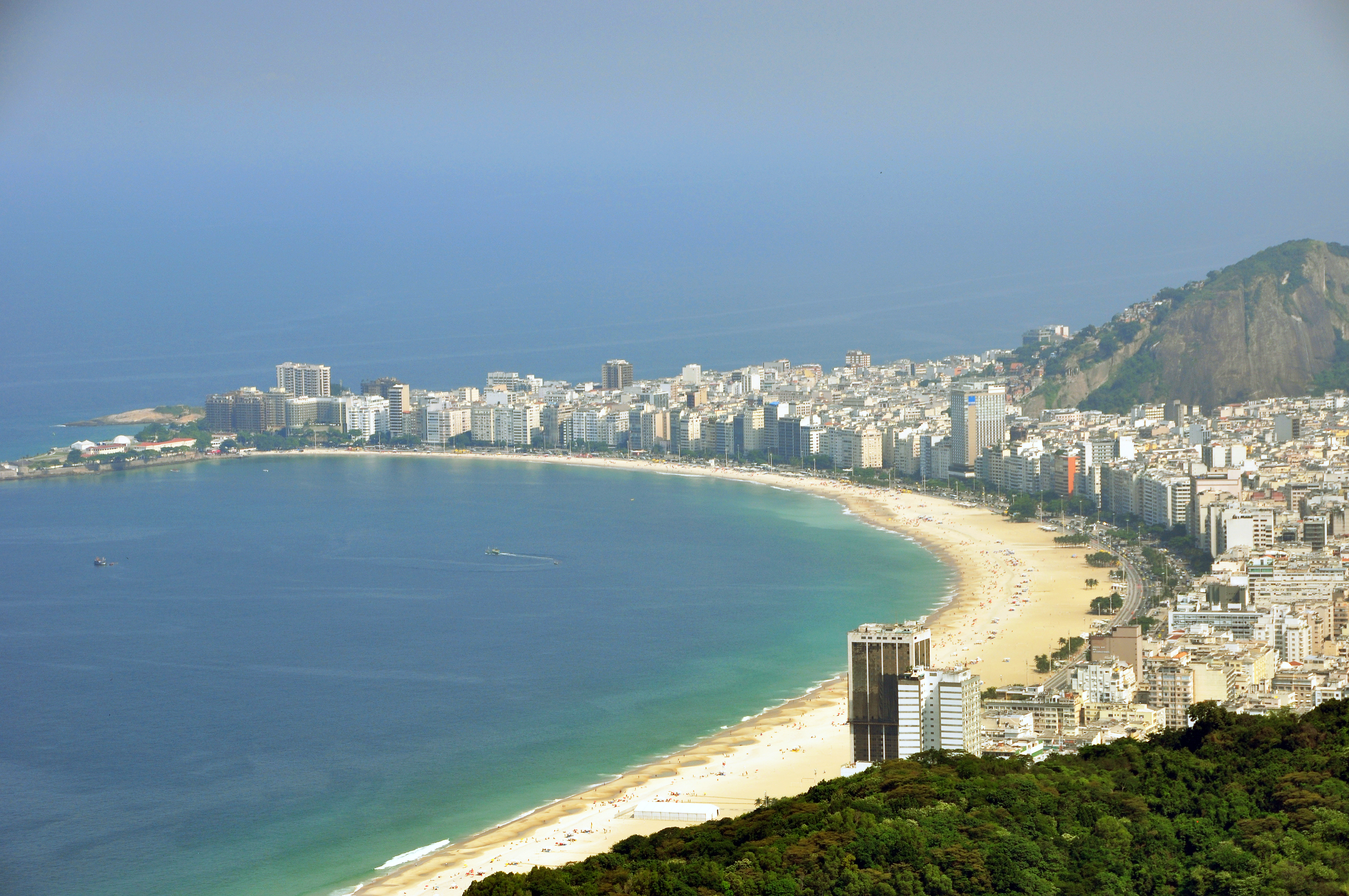 Copacabana Beach Rio de Janeiro view from Sugar Loaf 2010